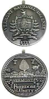 Black and white image of design common to the the bronze Vermont Veterans Medal and silver Vermont Distinguished Service Medal.